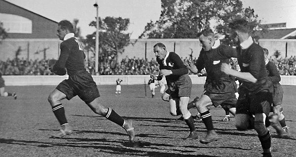 Frank Solomon (left) powers away